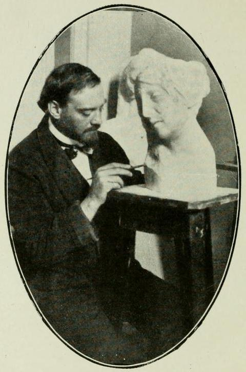 Pedro Zonza Briano (1886 - 1941), an Argentine sculptor.